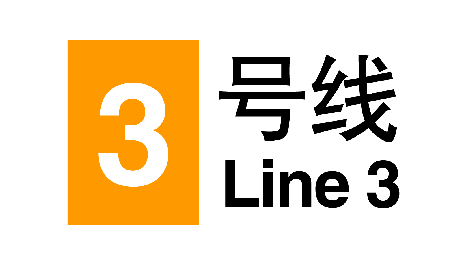 Harbin Metro Line 6 Logo